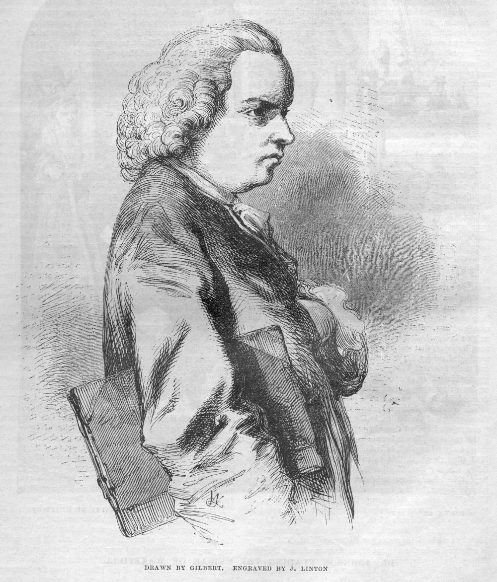 Oliver Goldsmith. 1, No. 1 (ca. 1853)